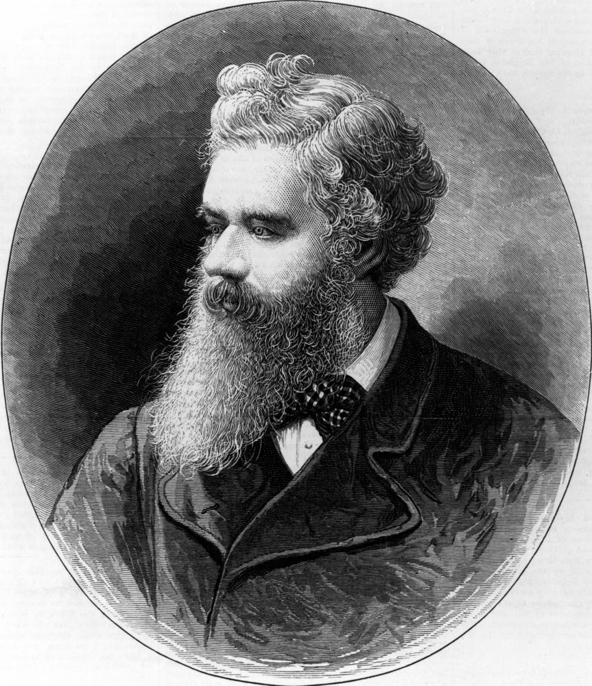 Engraving of John Douglas, Premier of Queensland (1877-1879)